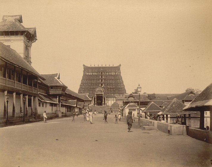 Photograph of the gopura of the Padmanabha Temple at Trivandrum, taken by Zachariah D'Cruz in the 1890s from the 'Album of South Indian Views' of the Curzon Collection. This ancient Hindu temple is one of the greatest of Kerala and was patronised mainly in the 18th century by the Travancore kings. The sanctuary, which enshrines a large image of Vishnu, is built in the typical Kerala style while the surrounding walls and towers are similar to those of the Dravidian architecture of Tamil Nadu. The imposing gopura or entrance gateway consists of ascending storeys ending with a vaulted roof and reflect the contemporary Nayaka style of architecture.